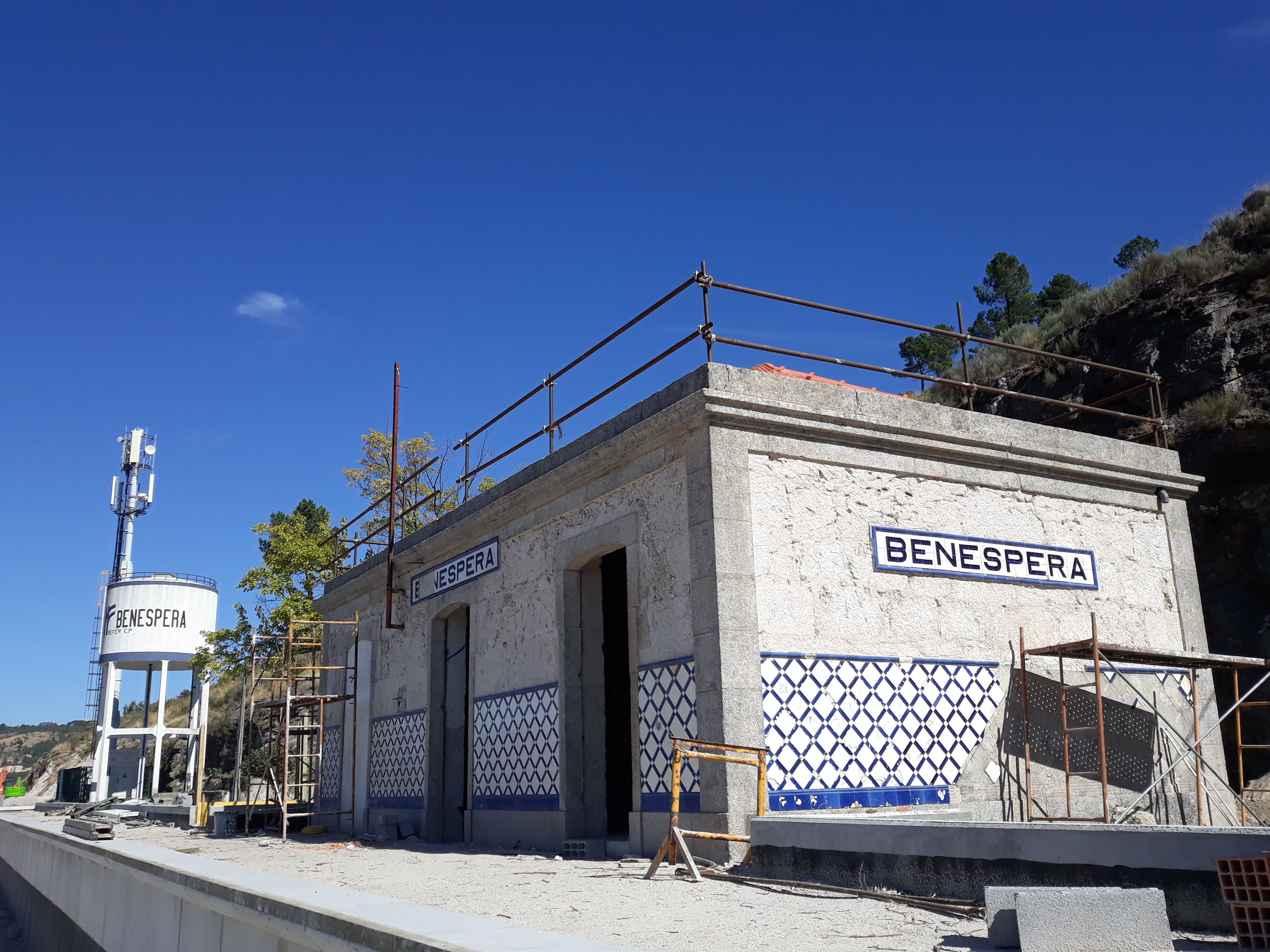 Benespera railway station- Guarda, Portugal